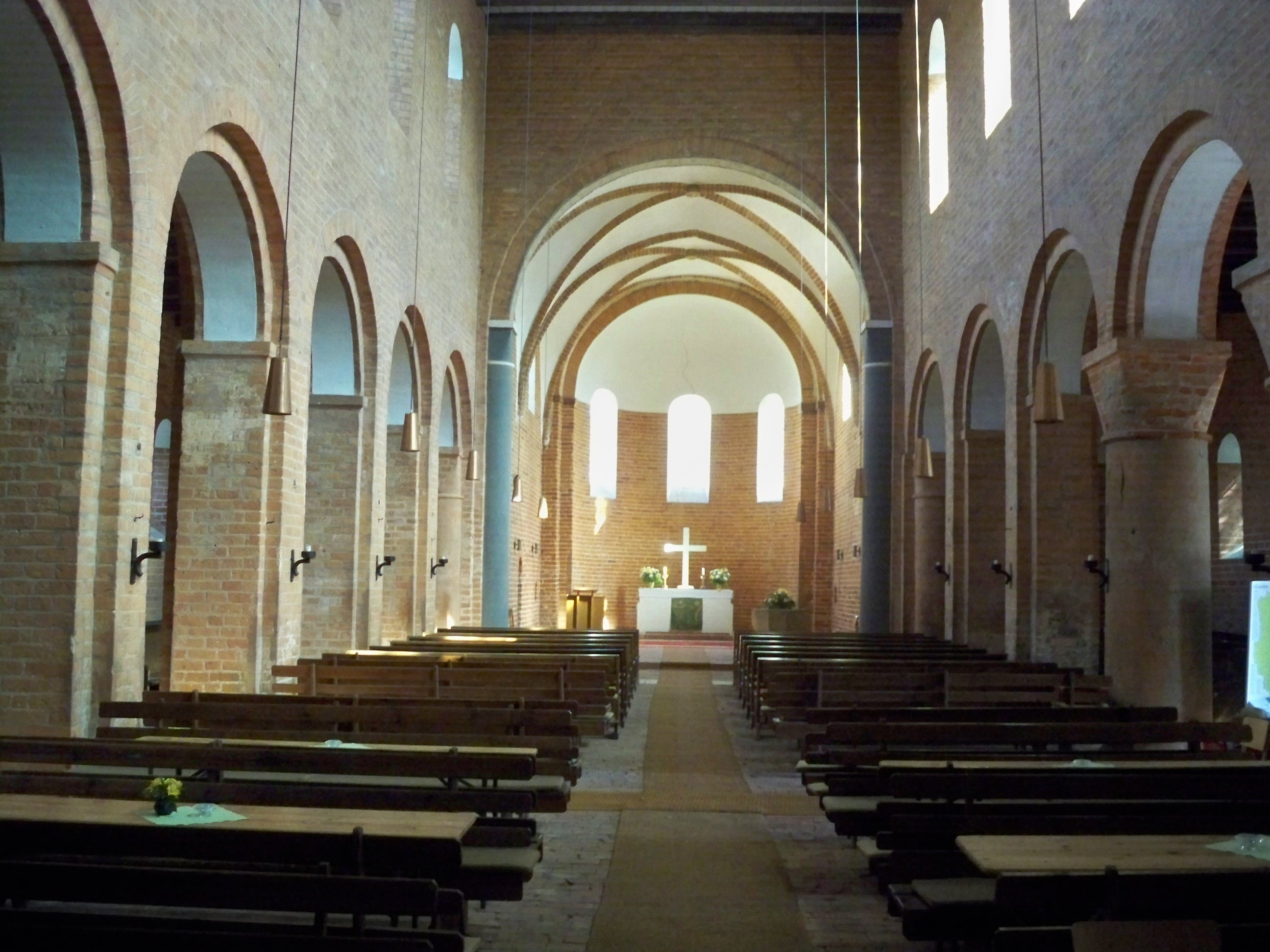 Sandau (Elbe), Saxony-Anhalt, St. Laurentius und St. Nikolaus, interior with altar